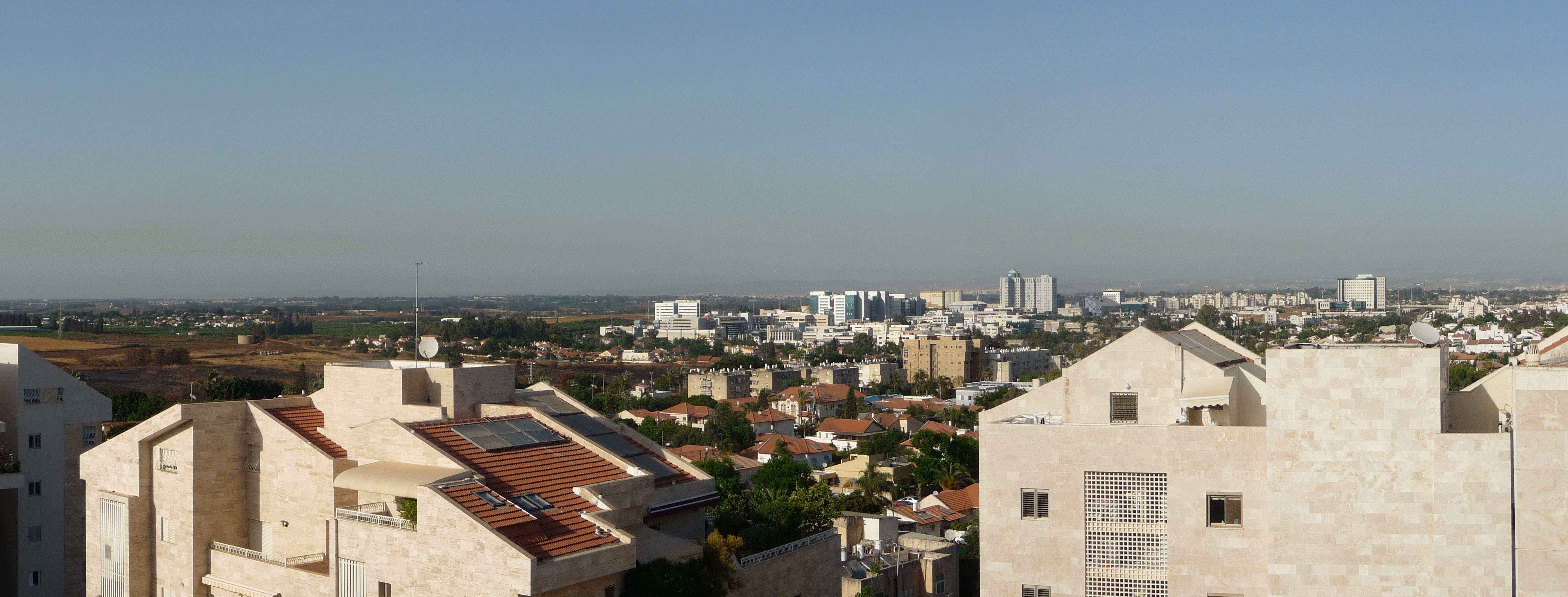 Raanana industrial zone